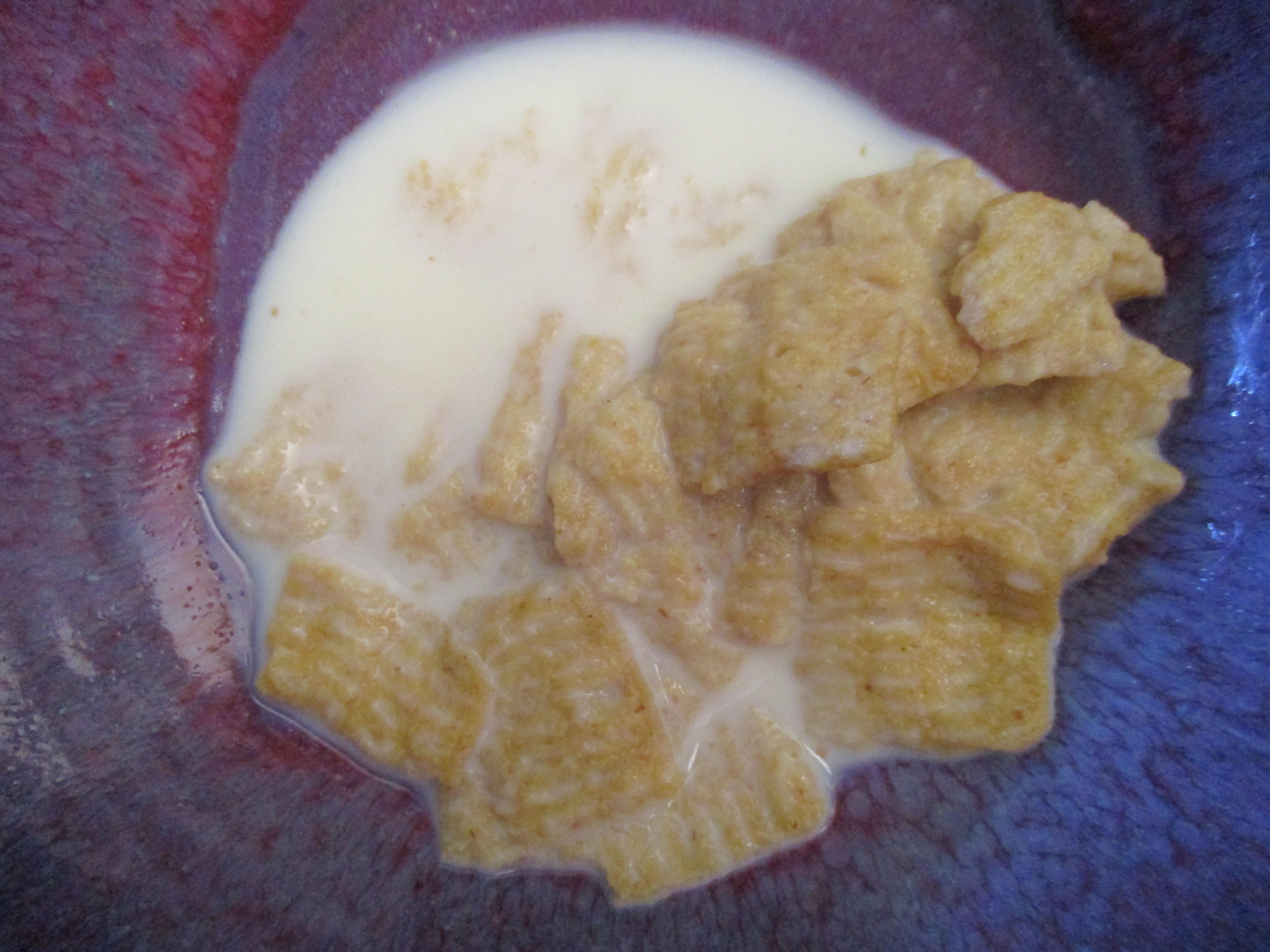 Close-up of soggy Life cereal